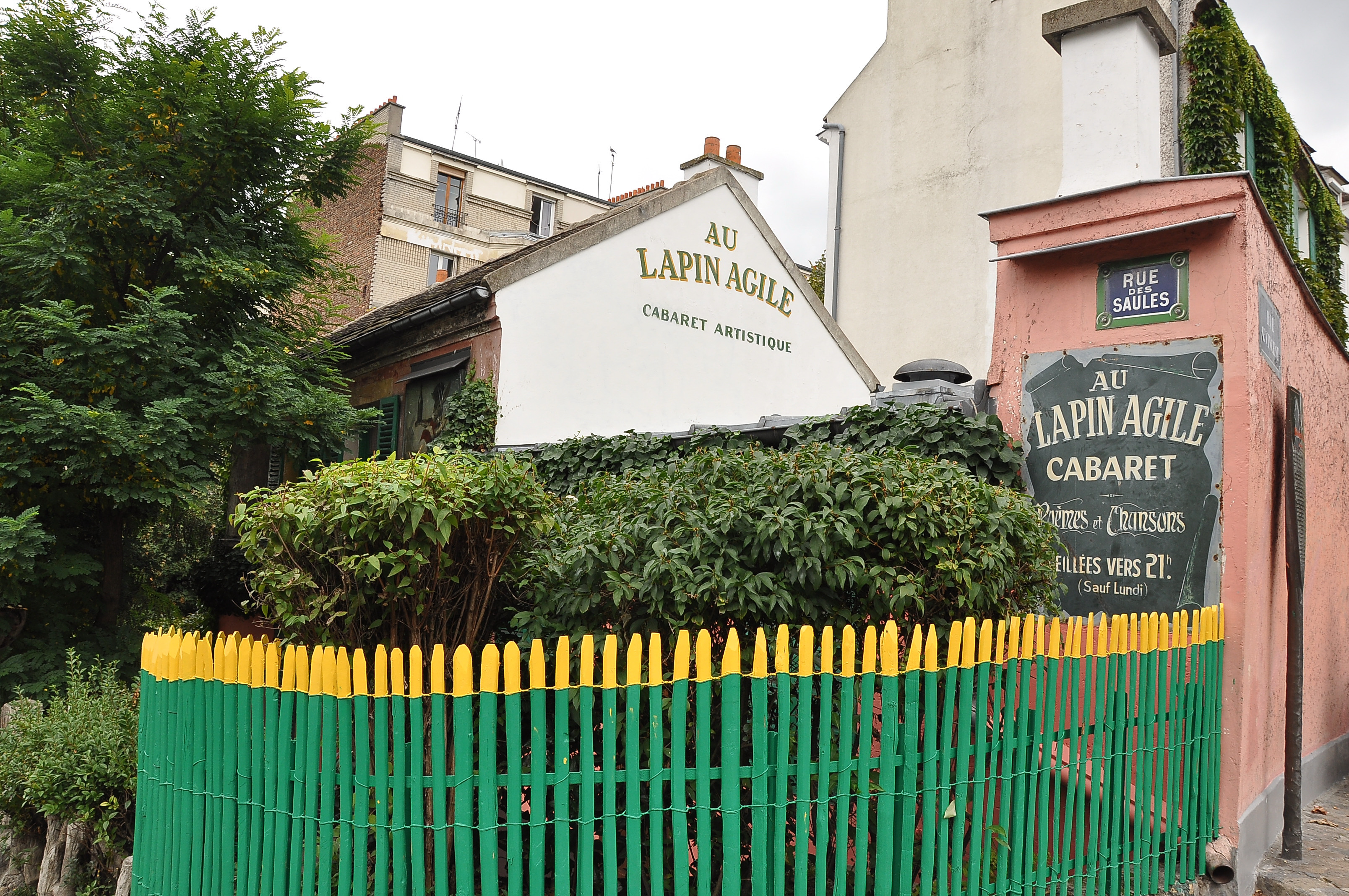 The famous cabaret Lapin Agile at Montmartre 18th arrondissement of Paris, France.